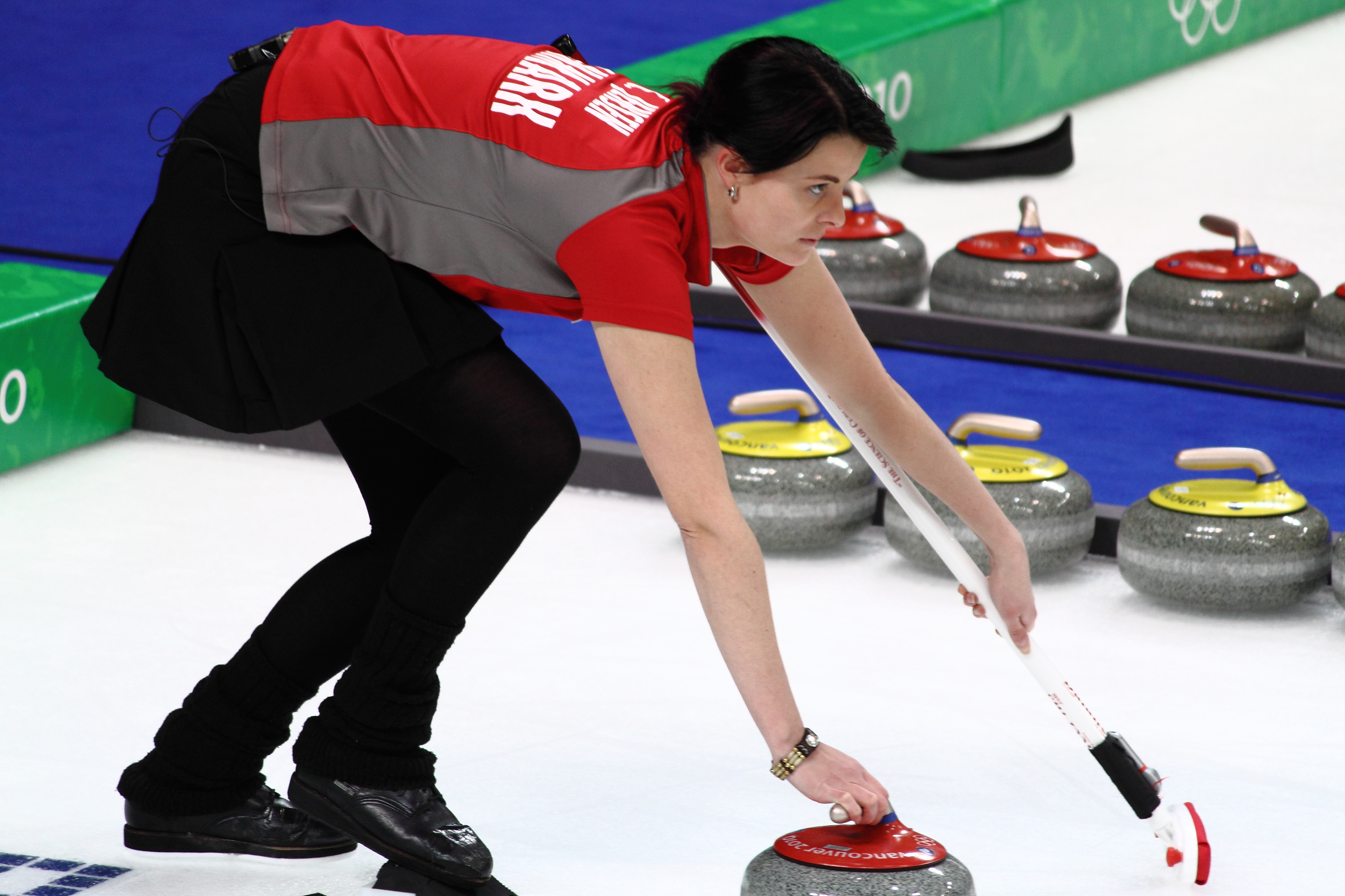 Camilla Jensen; 2010 Vancouver Olympic Games - Women's Curling - Preliminary from Vancouver Olympic Centre